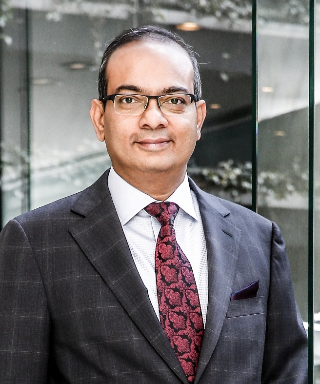 Keshav R. Murugesh, Group Chief Executive Officer, WNS Global Services